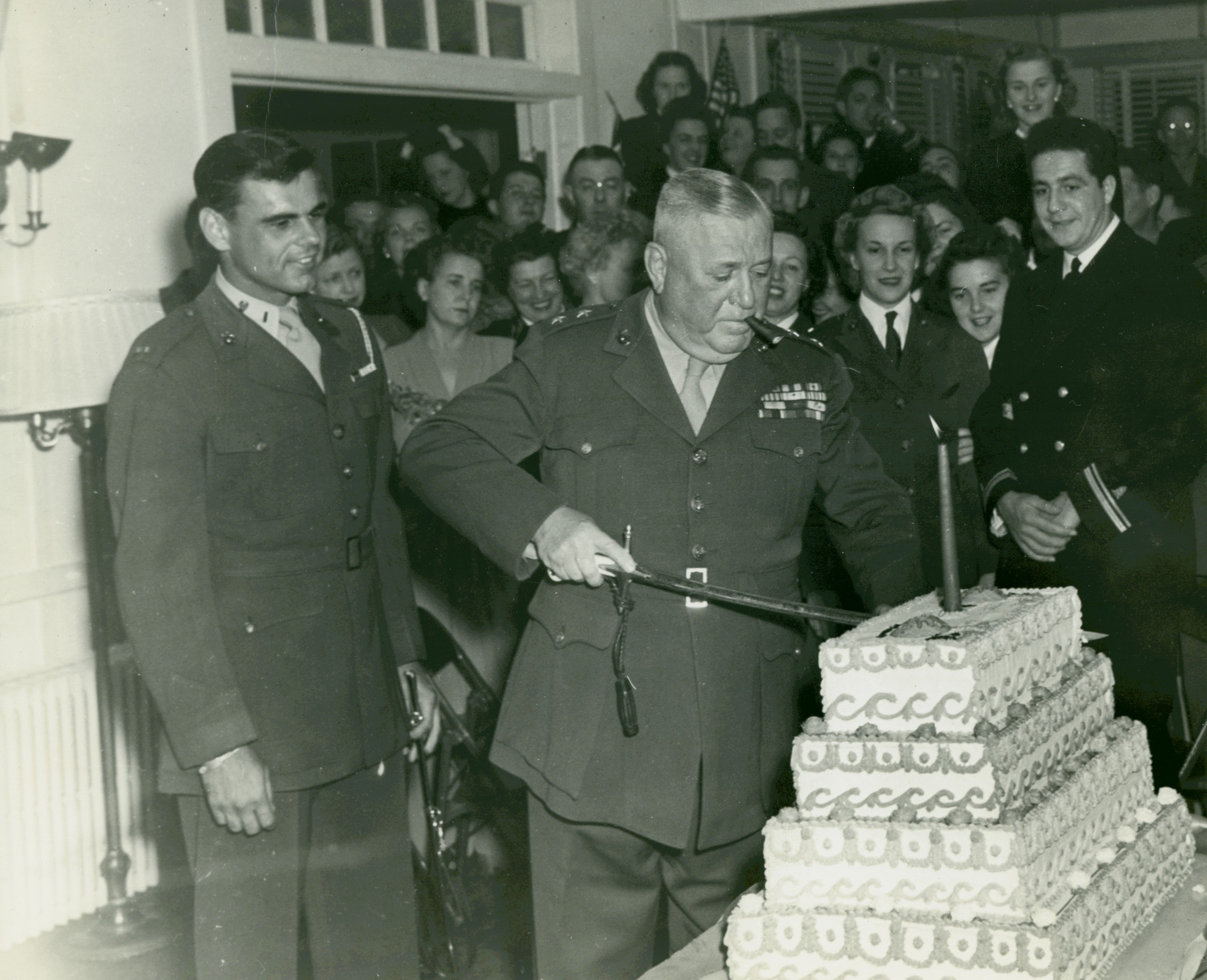 Major General Clayton Vogel cuts a piece of cake at the Marine Corps Birthday celebration in San Diego, 1943. From the Clayton Vogel Collection (COLL/1112) at the Marine Corps Archives and Special Collections OFFICIAL USMC PHOTOGRAPH